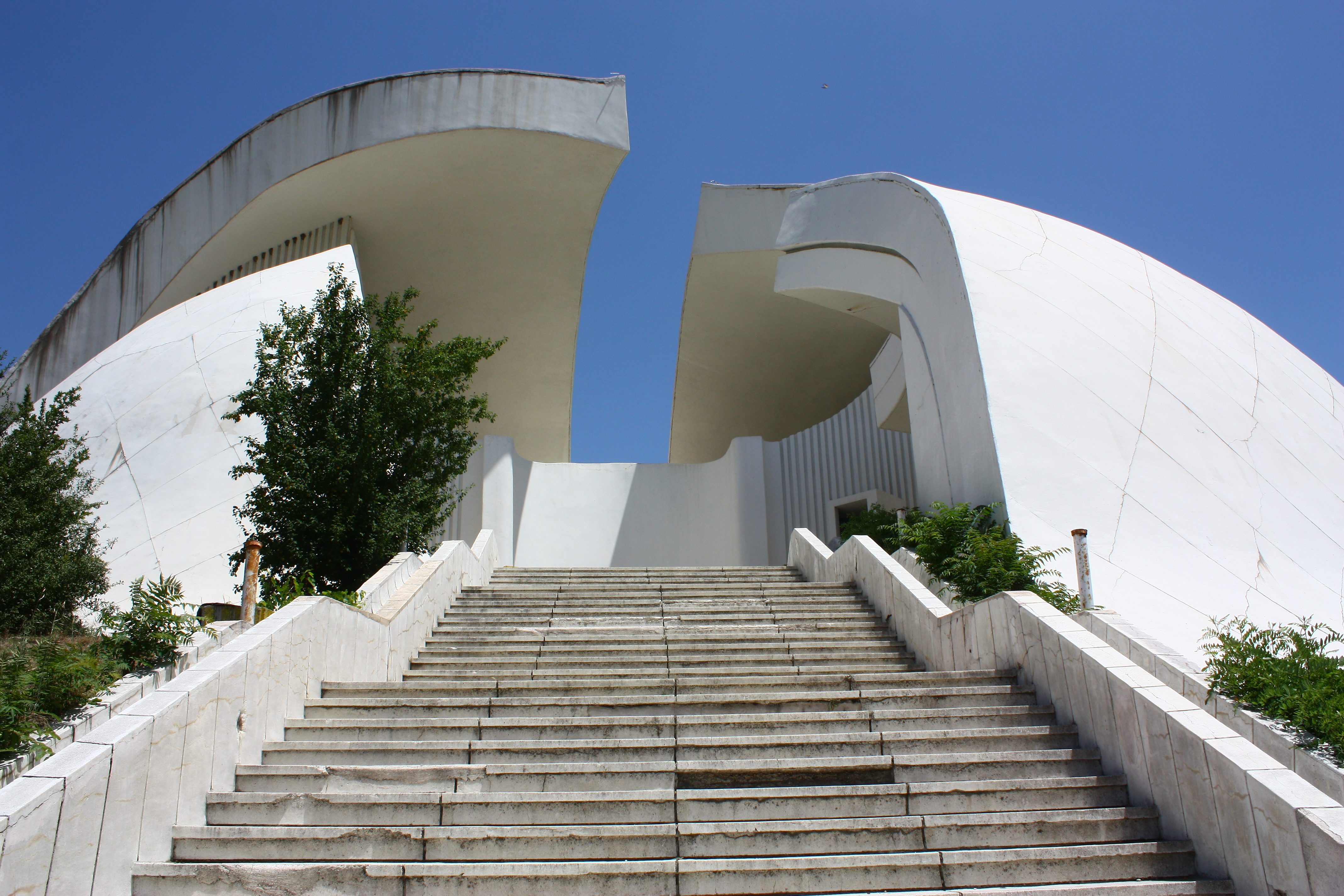 "Memorial Charnel house to the heroes of the Second World War from Veles and its district", Veles, Macedonia